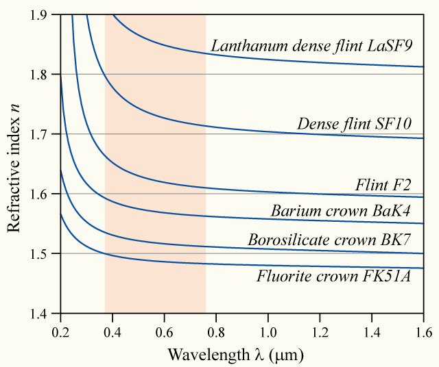 Plot of refractive index vs. wavelength of various glasses. For dispersion. By Bob Mellish. The wavelengths in the red-shaded portion correspond to the visible spectrum.